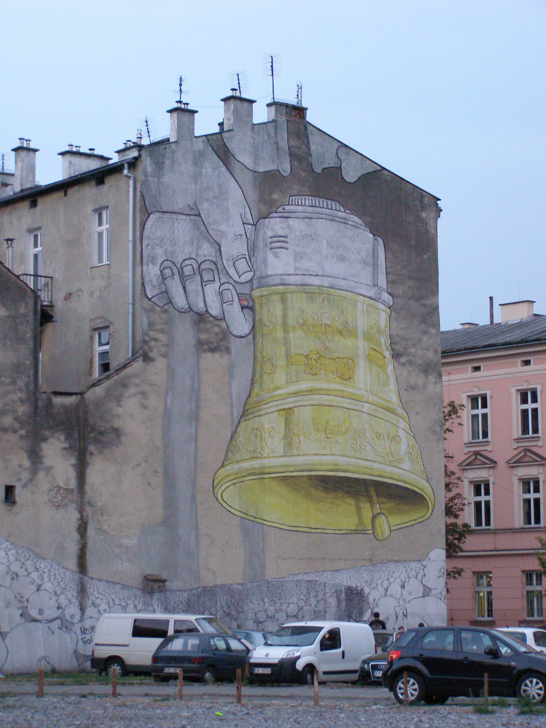 Kraków - "Ding Dong Dumb" mural by Blu on the house at 3 Józefińska str.